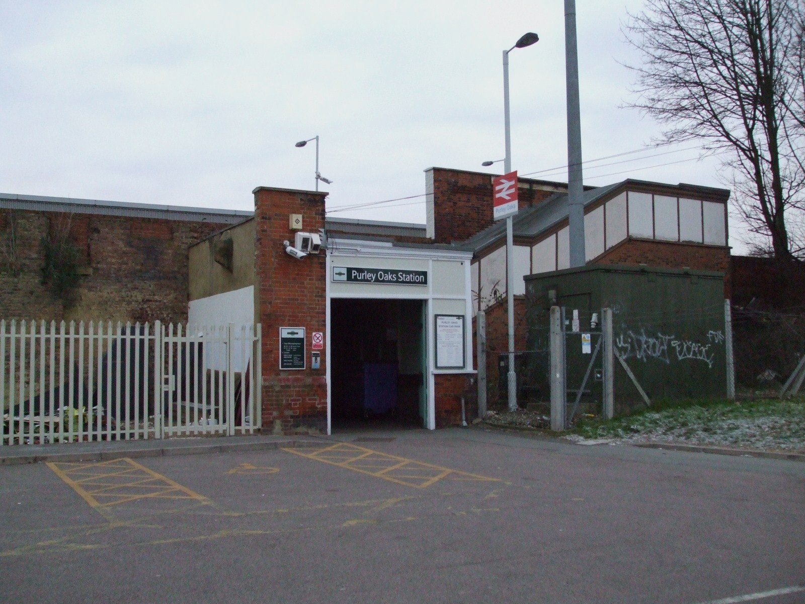 Purley Oaks station western entrance